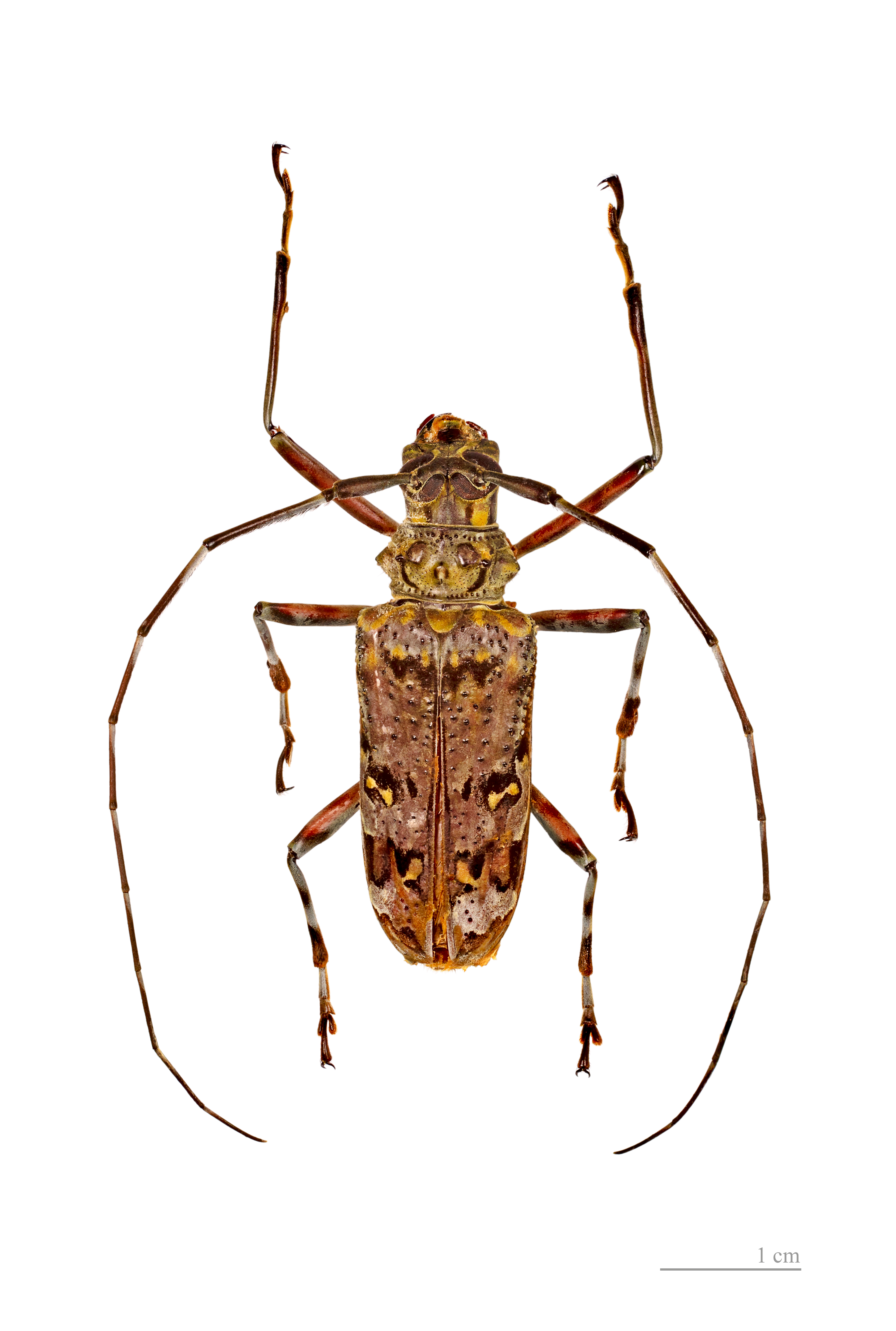 ♂ - Dorsal side Locality : Cacao, Crique Baguot, French Guiana